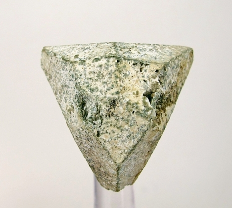 Grossular-Hibschite Series (Variety Achtaragdite) Locality: Akhtaragda River mouth (Achtaragda River mouth), Vilyui River Basin (Vilui River Basin; Wilui River Basin), Saha Republic (Sakha Republic; Yakutia), Eastern-Siberian Region, Russia Size: 2.5 x 2.4 x 1.5 cm Achtaragdite is a unique, rare and poorly understood pseudomorph from this remote Siberian locality that is the Type Locality for grossular garnet. It is a variety of the grossular-hibschite garnet series and is (technically, according to Internet research) a hydrogrossular-chlorite-carbonate pseudomorph after what was formerly considered to be wadalite or some other rare hydrogarnet. The real precursor mineral for these pseudomorphs is now considered to be helvite. The very lightweight floater crystal (a combination of grossular and intergrown kaolinite) has the very sculptural textbook form of isometric helvite crystals. This unusual and rare pseudomorh is an old-time piece, as it comes with a faded Lazard Cahn label dating from 1927-1940. Cahn studied in Germany prior to World War I under Victor Goldschmidt. This amazing pseudo undoubtedly dates to the Imperial Russia era.